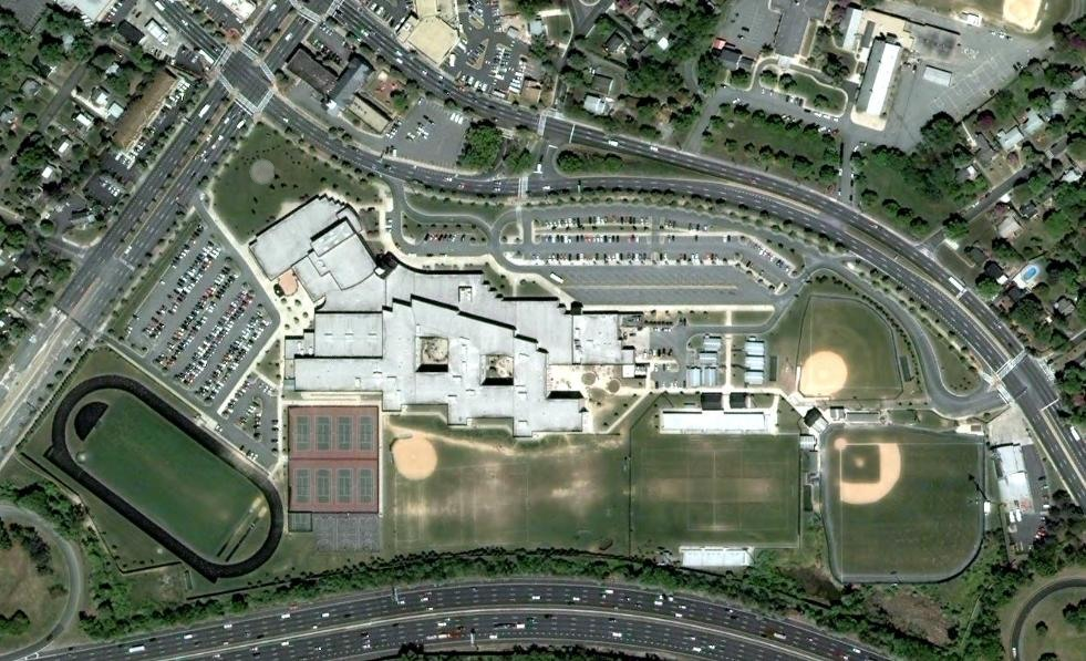 This is a USGS aerial photograph of Montgomery Blair High School's Four Corners Campus.